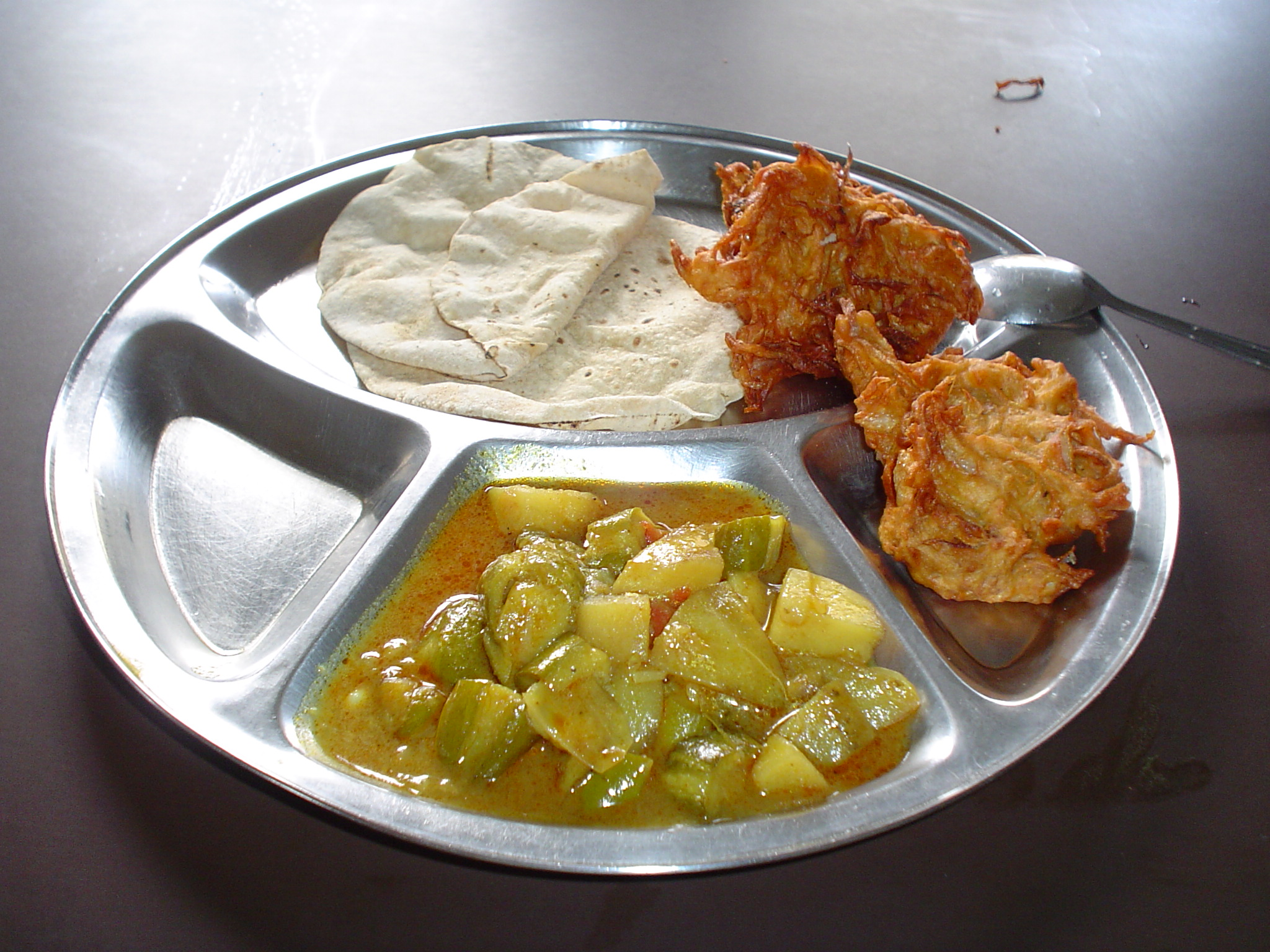 Common Indian lunch.